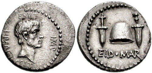 BRUTUS. Late Summer-Autumn 42 BC. AR Denarius (18mm, 3.36 gm, 12h). Mint moving with Brutus in northern Greece. L. Plaetorius Cestianus, magistrate. L. PLAET. CEST BRVT IMP, bare head of Brutus right / EID. MAR, pileus between two daggers pointing downward. Crawford 508/3; Cahn 23/21a (obv./rev.; same reverse die); CRI 216; Sydenham 1301; BMCRR East 68; RSC 15. Good VF, minor porosity. Of highest historical importance